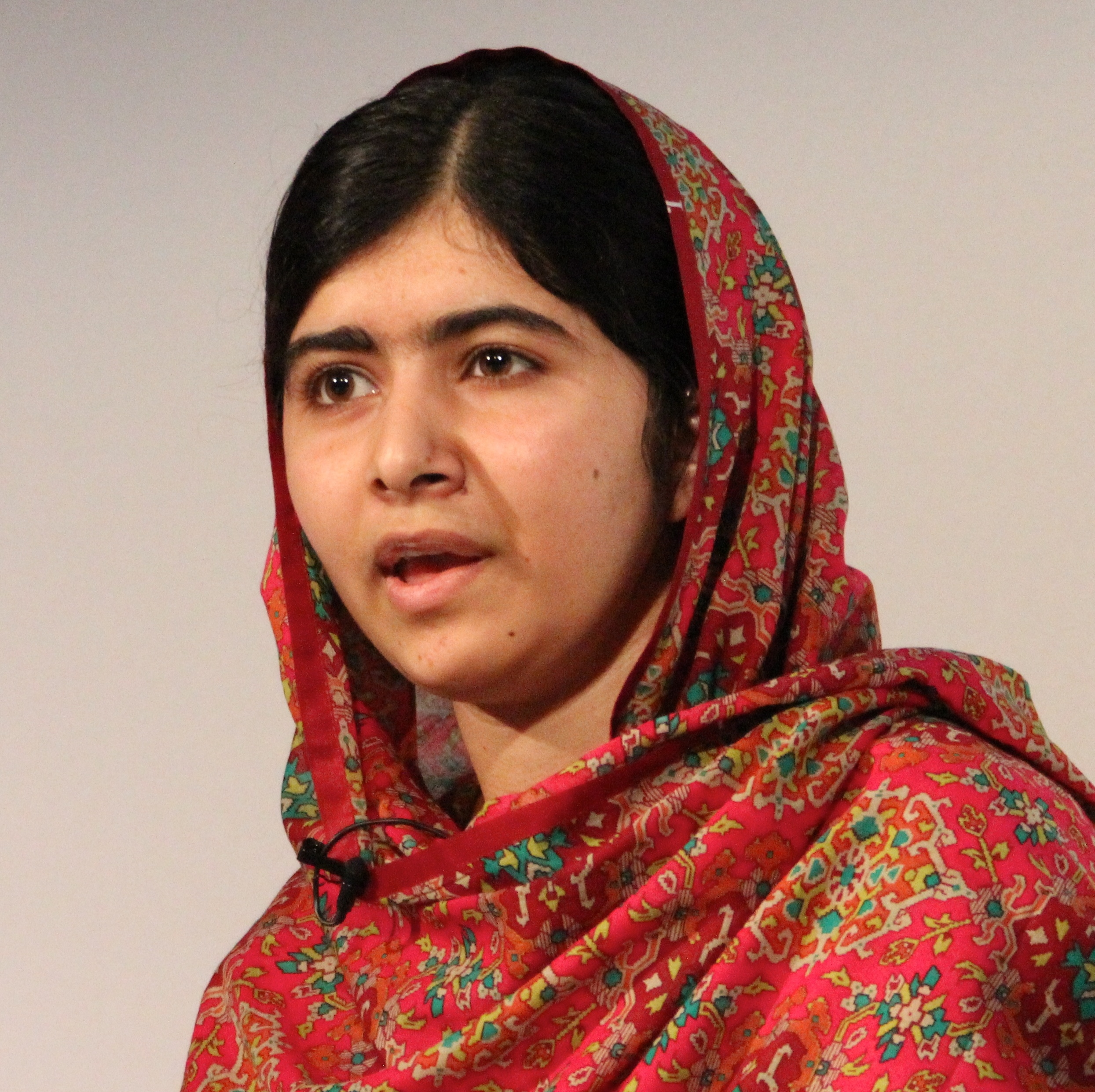 Malala Yousafzai at Girl Summit 2014